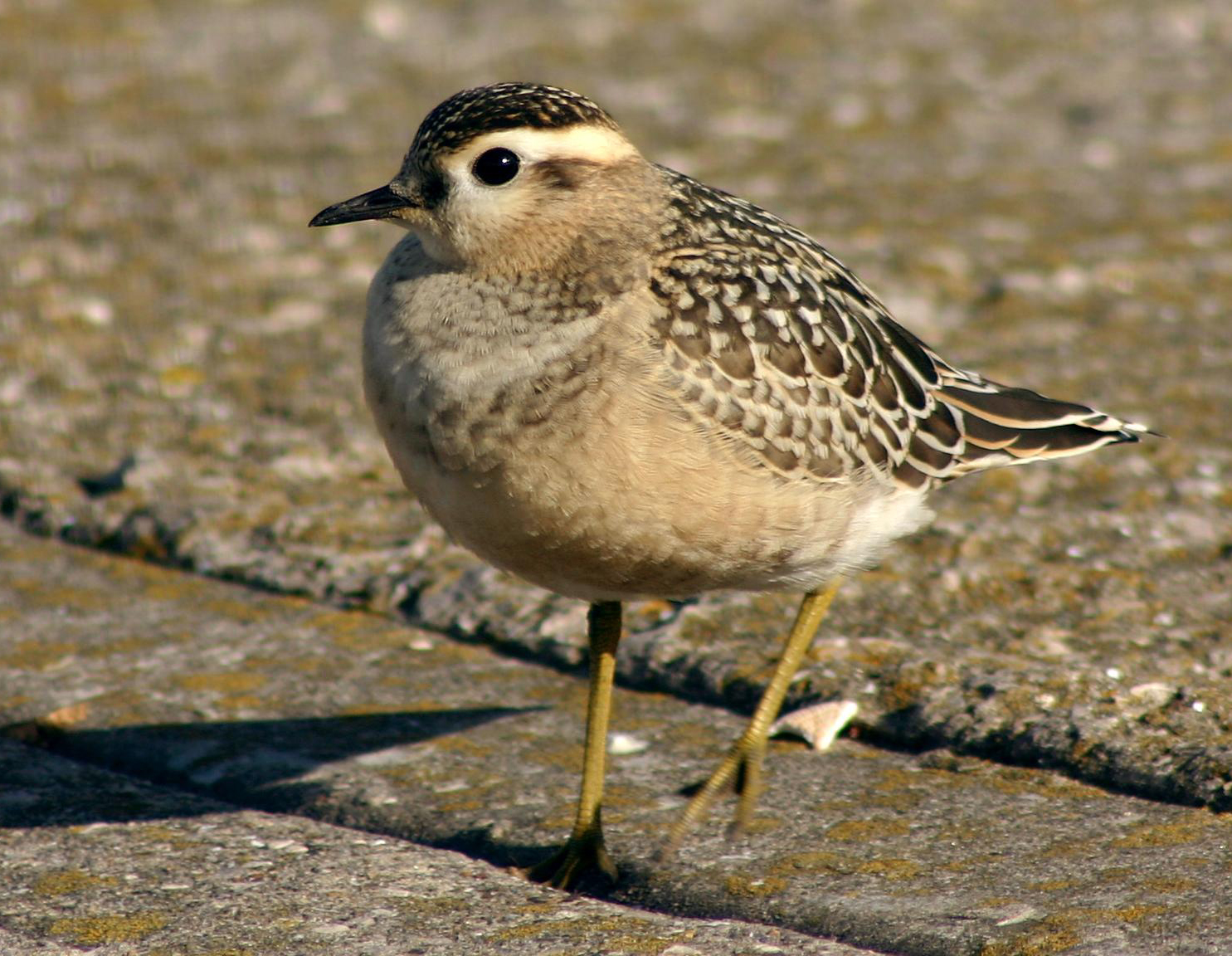 Author: Mark Jobling